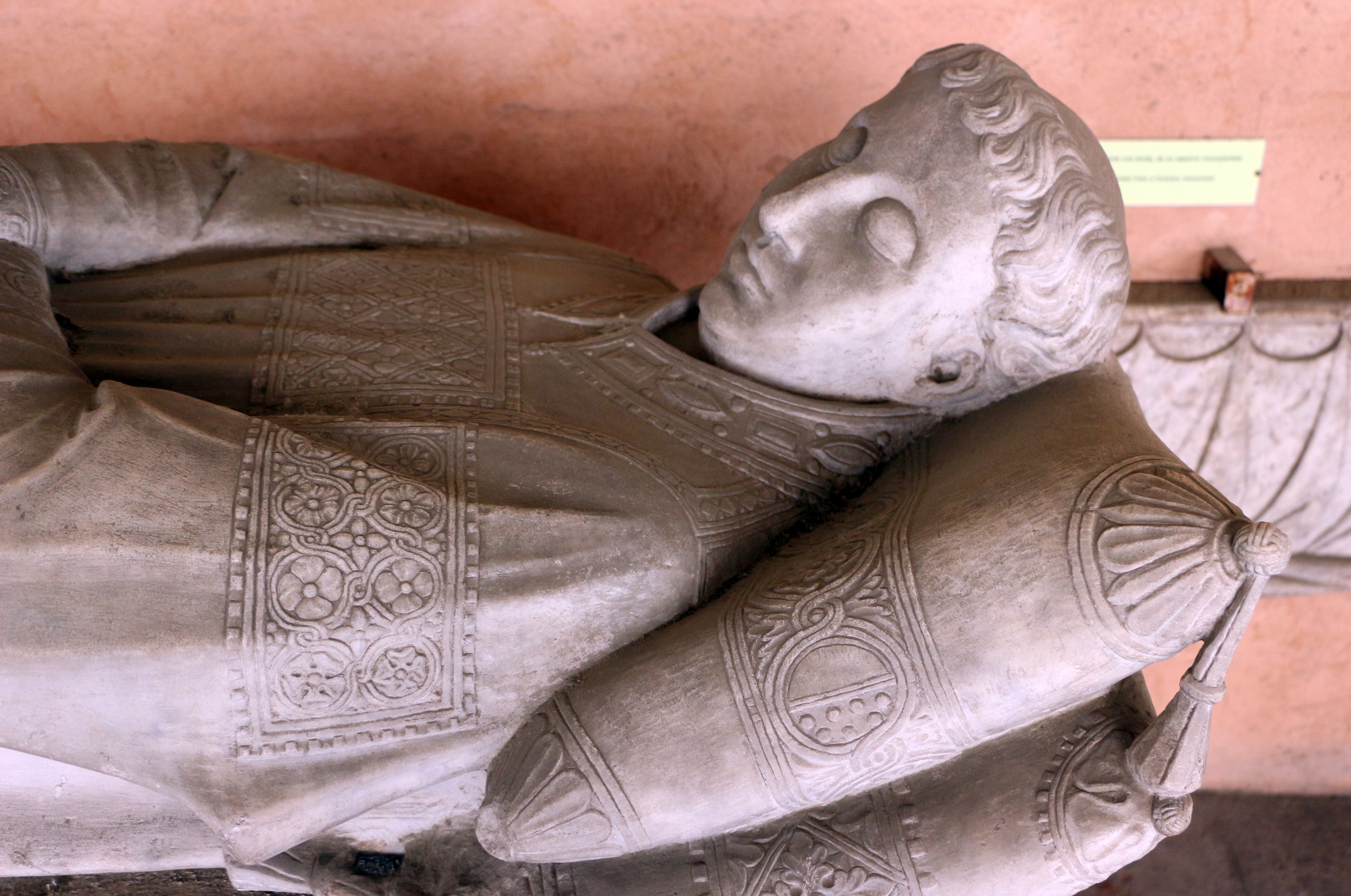 San Giovanni in Laterano (Rome) - Lapidarium